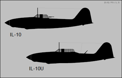 Side-view silhouettes of Ilyushin Il-10 and Il-10U Shturmoviks